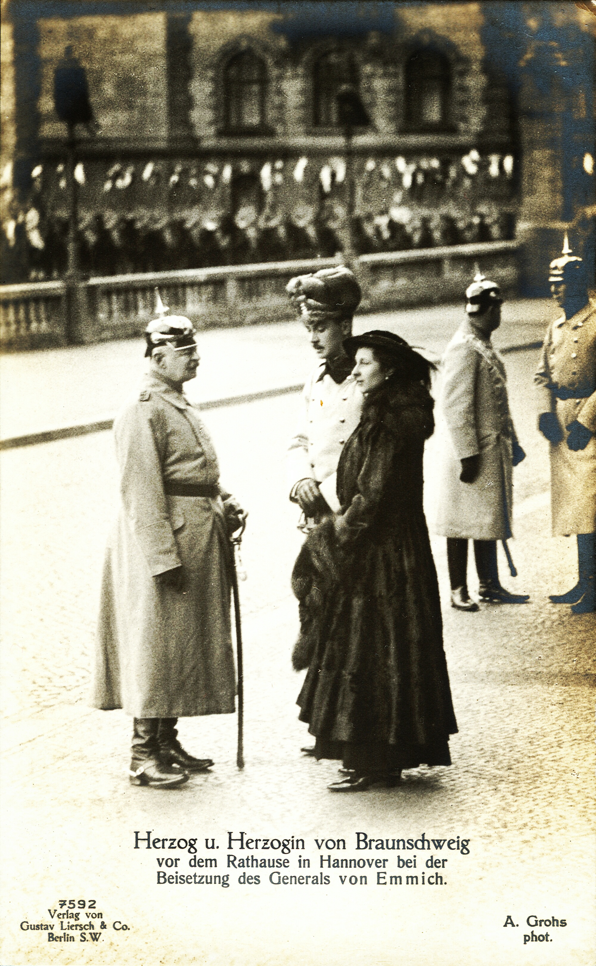 A so-called Real Photo postcard (RPPC), taken by the photographer Alfred Grohs subtitled "Duke and Duchess of town hall at the funeral of General von Emmich". The same recording with a different image section also brought the publishing of Gustav Liersch & Co. with the same continuous (order) number 7592 out, but with a slightly altered title "... talking to the Grand Duke of Oldenburg". The photo shows Ernst August of Hannover (III.) Duke of Brunswick, Duke of Brunswick and Lüneburg, Prince of Hannover with his wife Viktoria Luise, Duchess of Brunswick-Lüneburg, Princess of Hannover, Princess of Great Britain and Ireland on the Tramplatz talking with Grand Duke Augustus II. of Oldenburg nearing funeral procession with a large entourage of the late General Otto von Emmich to Engesohder Friedhof. The two in the background, also adorned with Pickelhaube men could not be identified until further notice ...